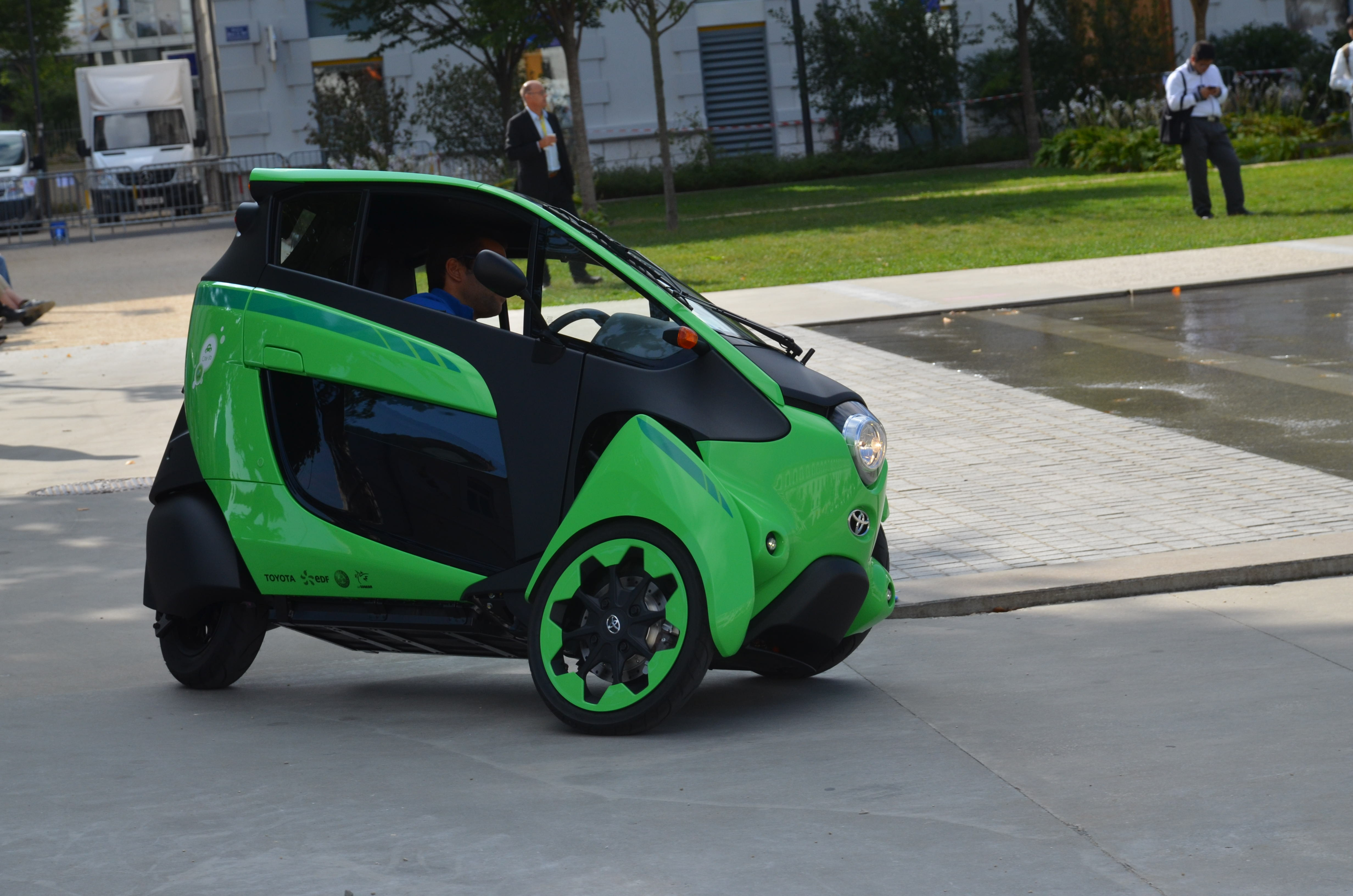 Toyota i-Road driving in Grenoble